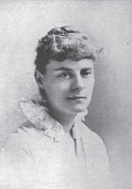 Portrait of author/poet Lizette Woodworth Reese ca. 1890's.